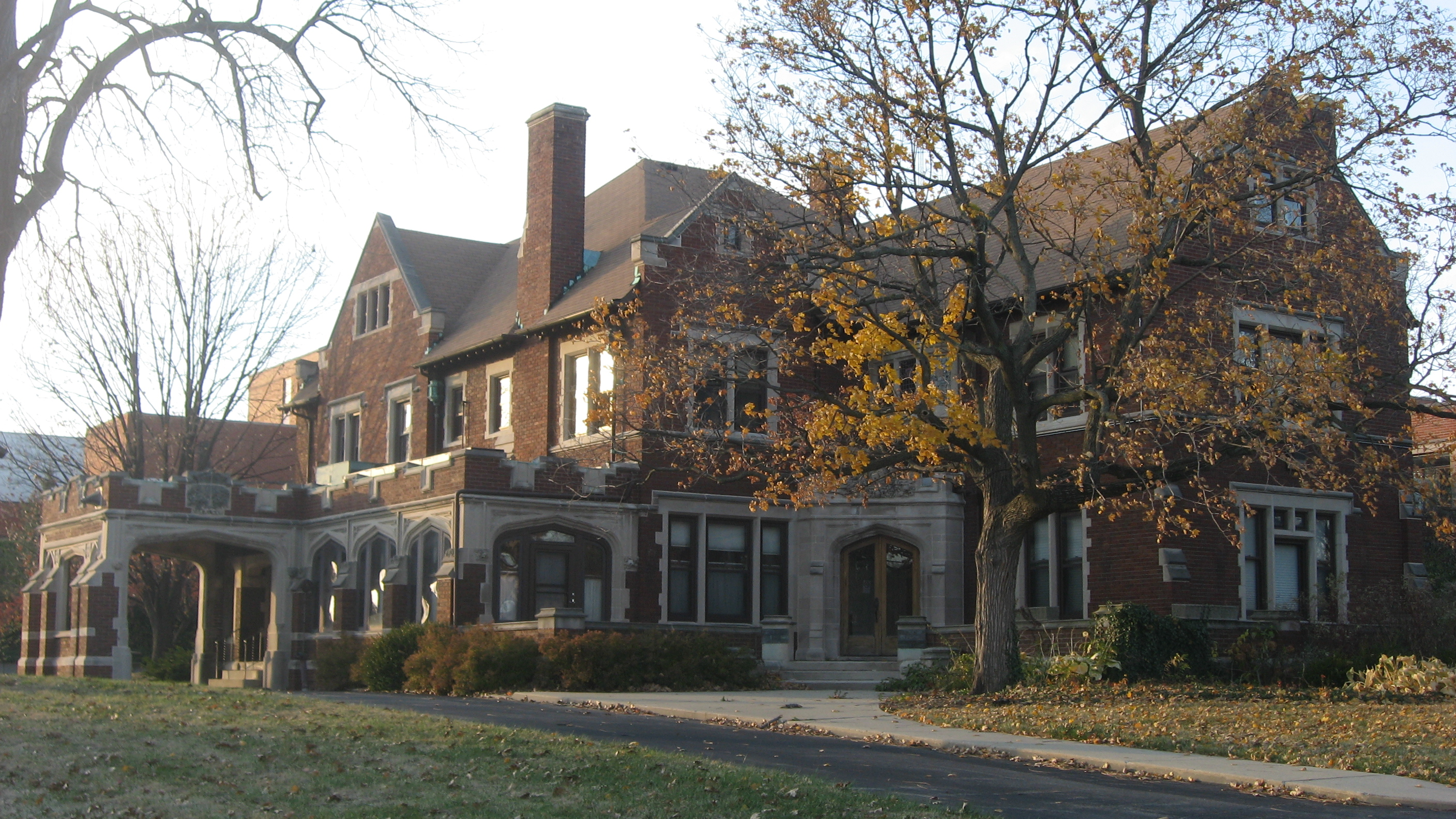 Front of the Alfred M. Glossbrenner Mansion, located at 3202 N. Meridian Street in Indianapolis, Indiana, United States. Built in 1910, it is listed on the National Register of Historic Places.